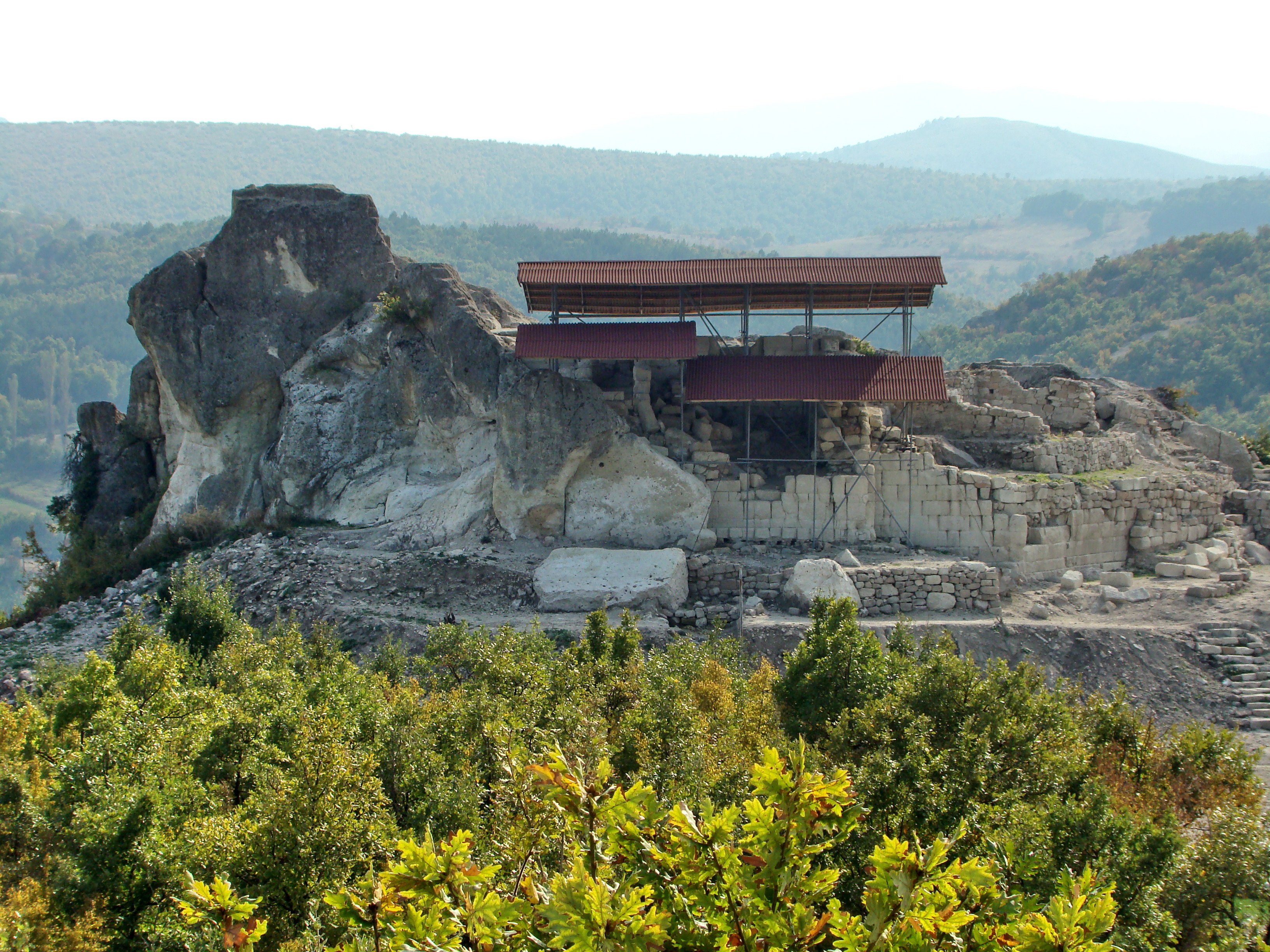 The Tatul archeology site on the sanctuary hill